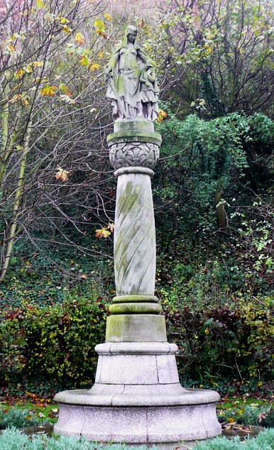 Æthelflæd Monument, Tamworth. At the base of the castle mound stands a monument to Æthelflæd, daughter of King Alfred the Great, who married Æthelred, Lord of the Mercians. Known as the 'Lady of the Mercians', she governed the Mercia from her husband's death in 911 until her own death in 918 AD, and led attacks on the invading Danes. She is depicted with her nephew Æthelstan, who she brought up and who later became the first King of England. See 1740817 for the inscription. The monument was designed by H. C. Mitchell and sculpted by E. G. Bramwell. It was erected in 1913 to commemorate the millennium of the fortification of Tamworth by Ætehlflæd.